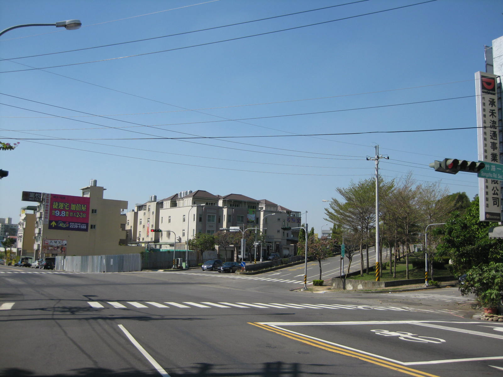 Start of Songjhu Rd.(or Songzhu Rd.)A view at the junction of Songjhu Rd. and Dongshan Rd. in Taichung City.Seen from Dongshan Rd.